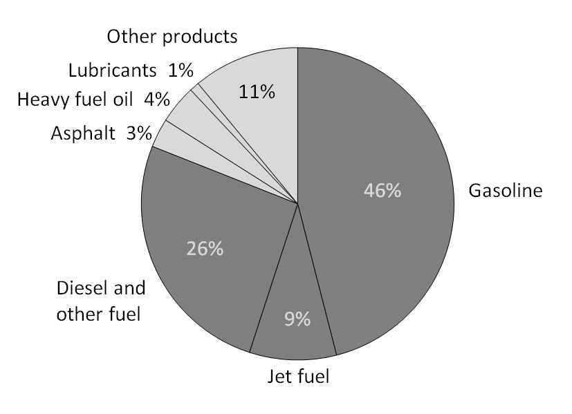 Petroleum products made from a typical barrel of US oil. Dark grey represents fuels, light grey is other products.